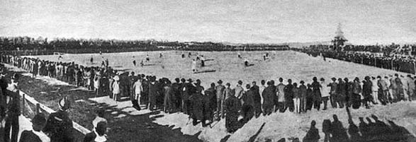 Alumni A.C. v. a South African team, playing at Sociedad Sportiva Argentina of Palermo.